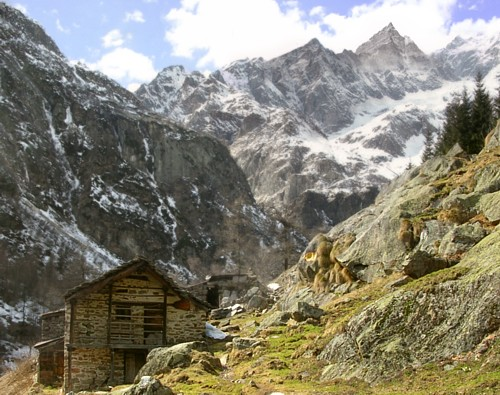 Punta Giordani seen from Valle Sesia Picture taken and edited by user user:Idéfix april 2005